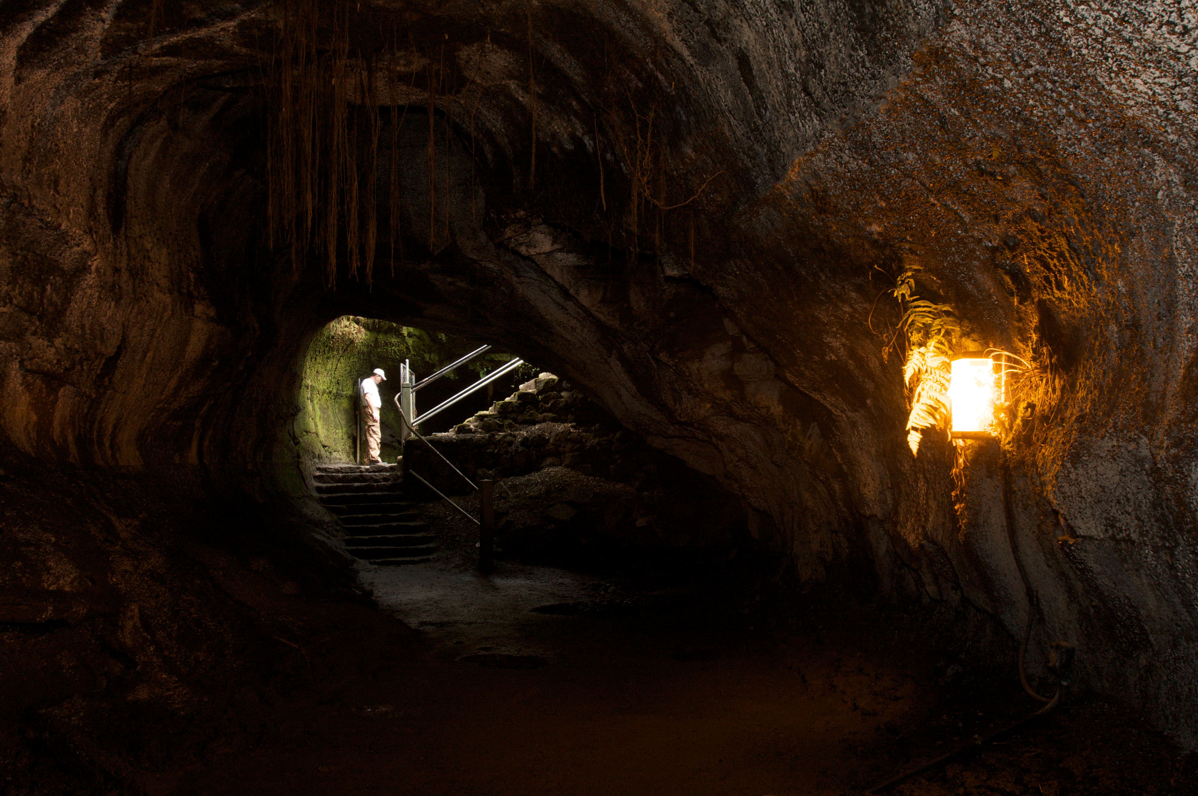 Exit of the Thurston Lava Tube, Kilauea, Hawaii, United States